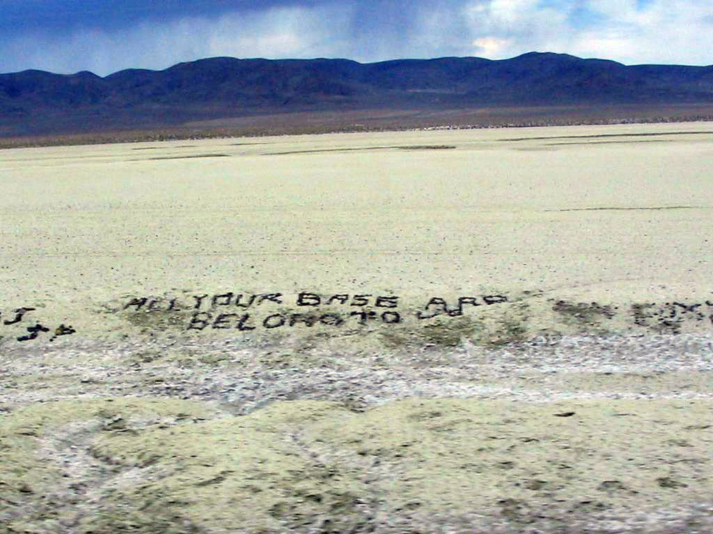 "All your base are belong to us" at US-50 south-east of Fallon, NV, about 5 miles west of the Sand Mountain Recreation AreaWhile on the way from Fallon to Ely on US-50, a few miles west of the Sand Mountain Recreation Area, we noticed a lot of graffiti along the road. Without stopping, I just held my camera out of the side window and took a few pictures, not aiming at anything in particular. Later at home I recognized the words "All your base are belong to us" on one of the pictures.